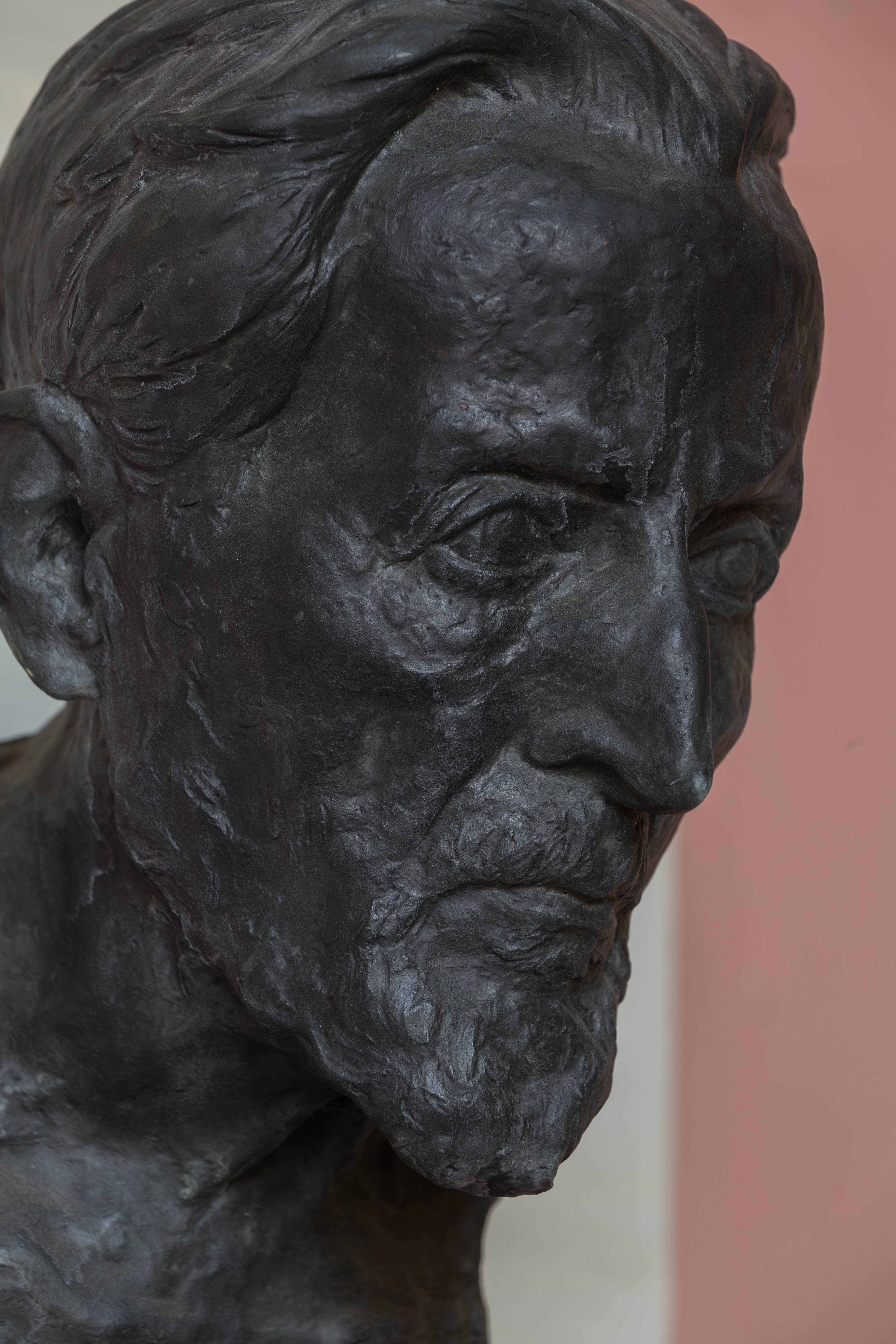 Hans Horst Meyer (1853-1939), bust (dark bronze) in the Arkadenhof of the University of Vienna, (Maisel# 78). Artist: Grete Hartmann, unveiled 1953